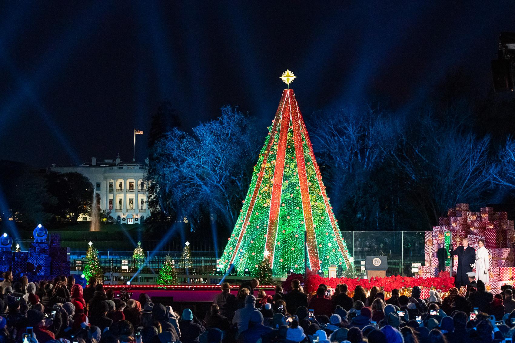 2018 U.S. National Christmas Tree during the tree lighting ceremony on the Ellipse in Washington, D.C., in the United States on November 28, 2018. President Donald J. Trump and First Lady Melania Trump can be seen to the right.